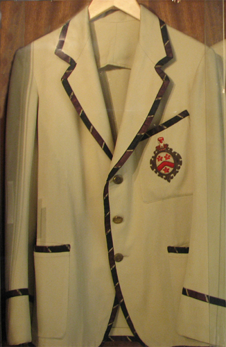 A photograph of a rare Dulwich College White Blazer, awarded only to sportsmen who have competed in the 1st XV Rugby, 1st XI cricket, and have achieved prominence in a minor sport.